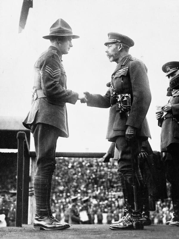 The investiture of Lance Corporal (now Sergeant) Samuel Frickleton, New Zealand Rifle Brigade, with the Victoria Cross by HM King George V